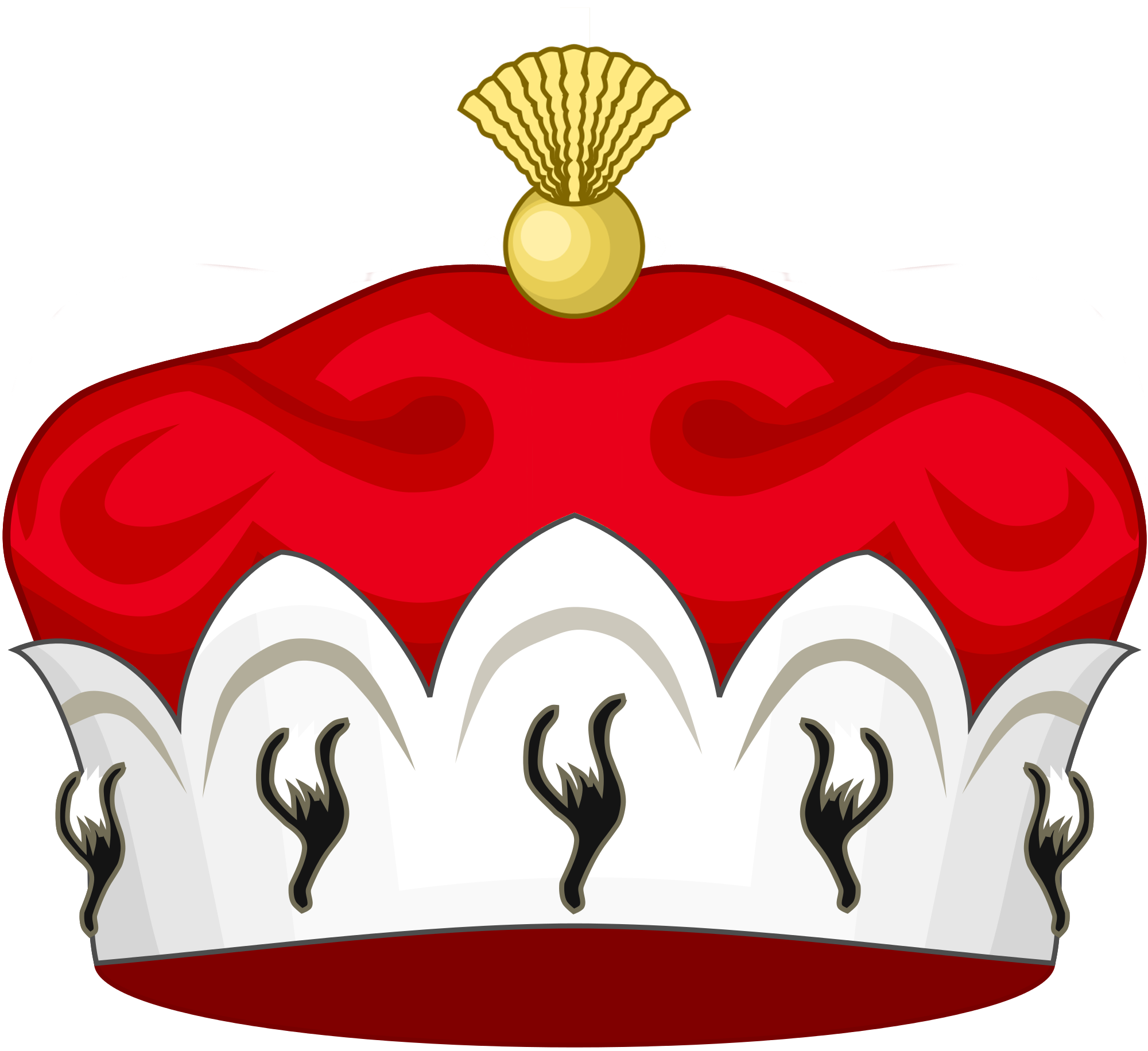 Heraldic hat of a voivode. Some families prefer the hat to the coronet, which is based on continental and British ducal coronets.